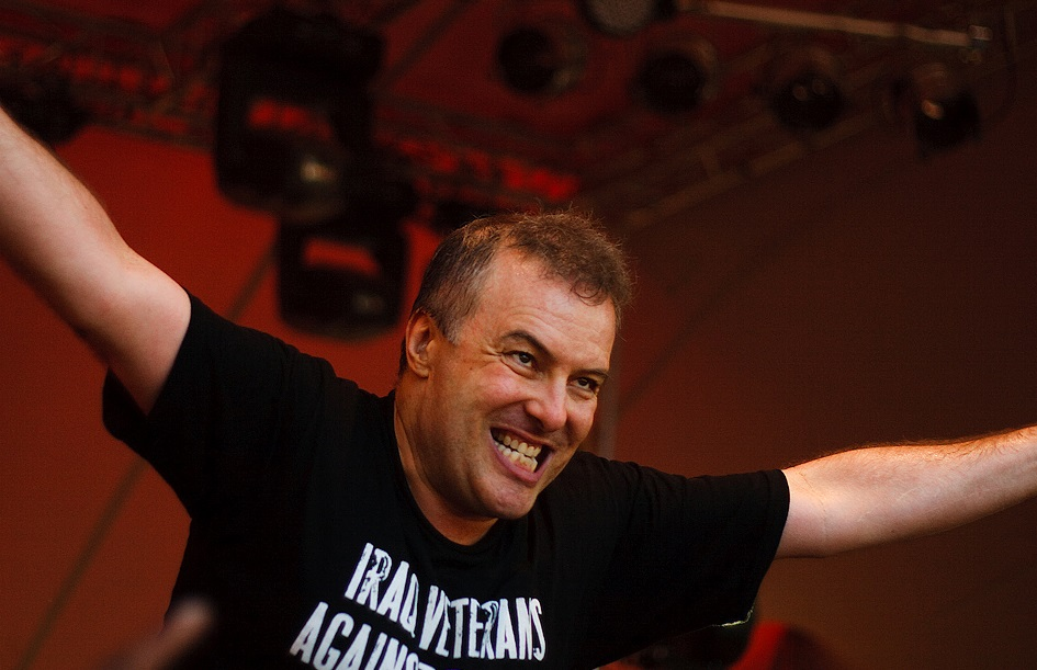 Jello Biafra and the Guantanamo School of Medicine live at Fusion Festival 2010